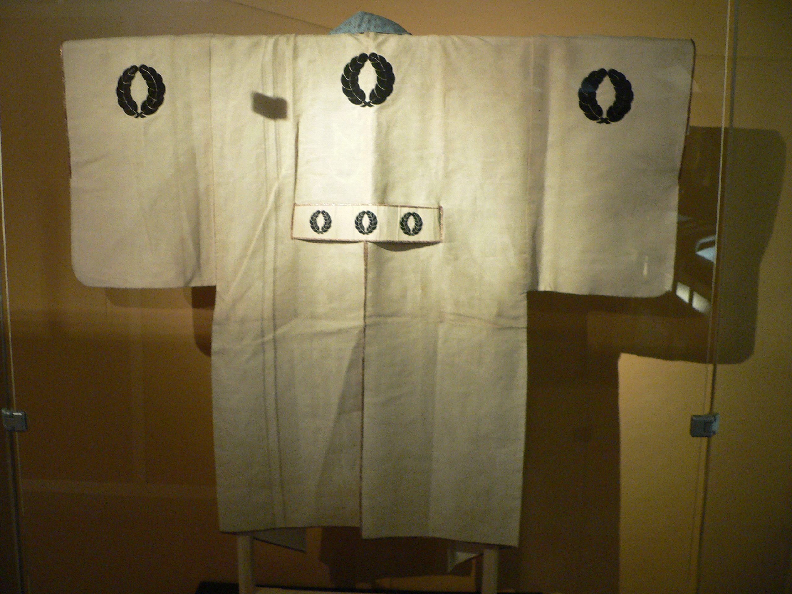 kimono vest of military leader, worn above the armour.